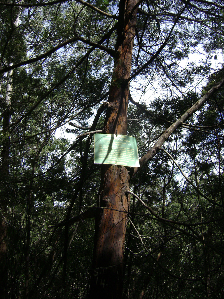 Mature Black Wattle tree on Goschen Road before Poombarai